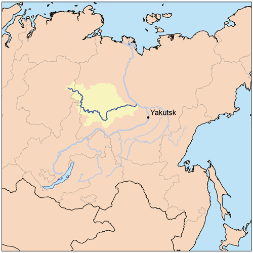 This is a map of the Vilyuy River Watershed, based on USGS data.